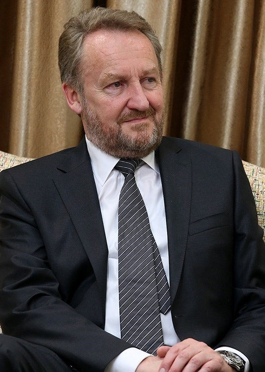 Bakir Izetbegović